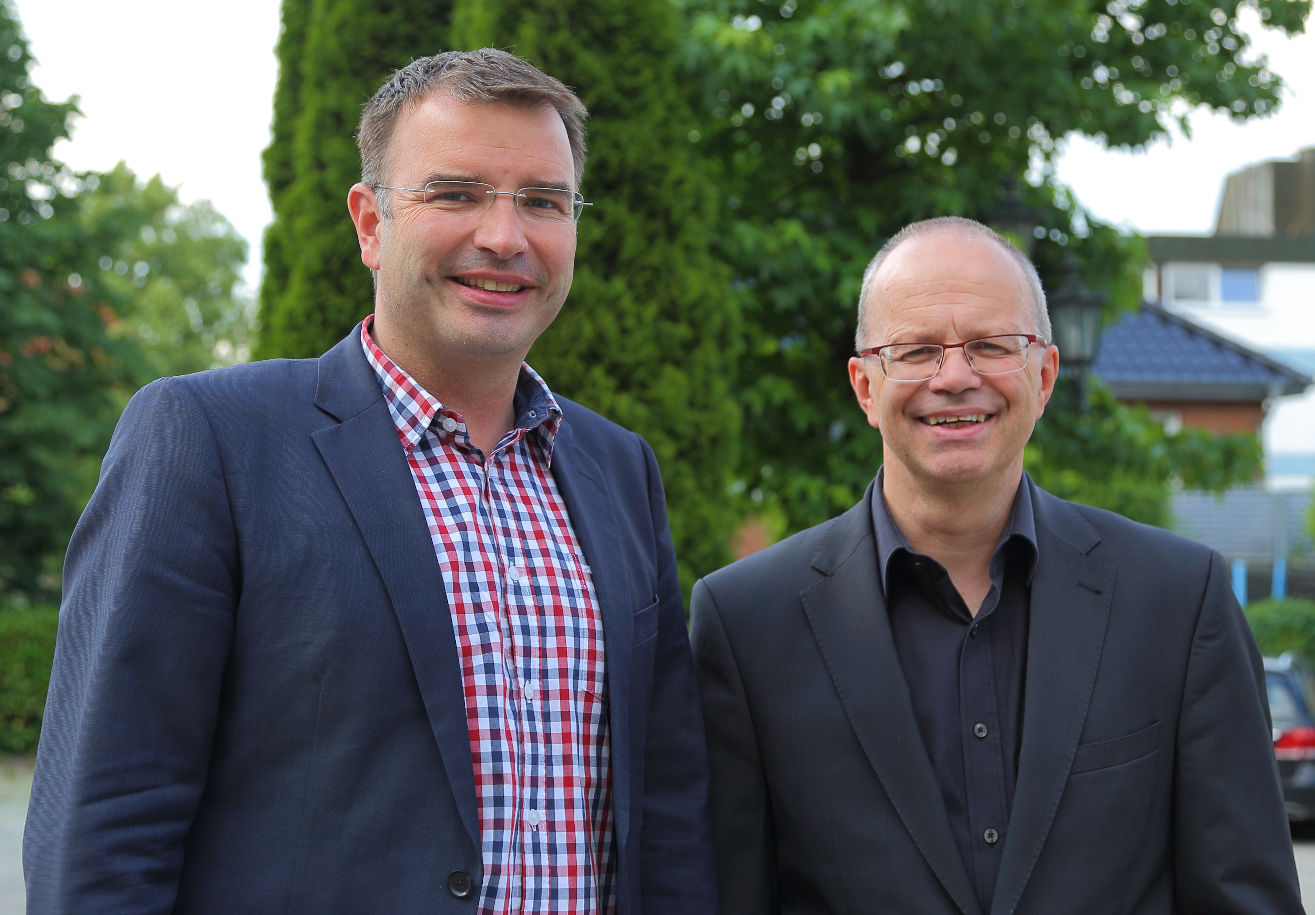 German politicians Michael Hübner (left) and Frank Sundermann (both members of the SPD) at the political event Region of the Future: North Rhine-Westphalia [NRW] (Zukunftsregion NRW) of the SPD Ibbenbüren in Laggenbeck, borough of Ibbenbüren, Kreis Steinfurt, North Rhine-Westphalia, Germany.